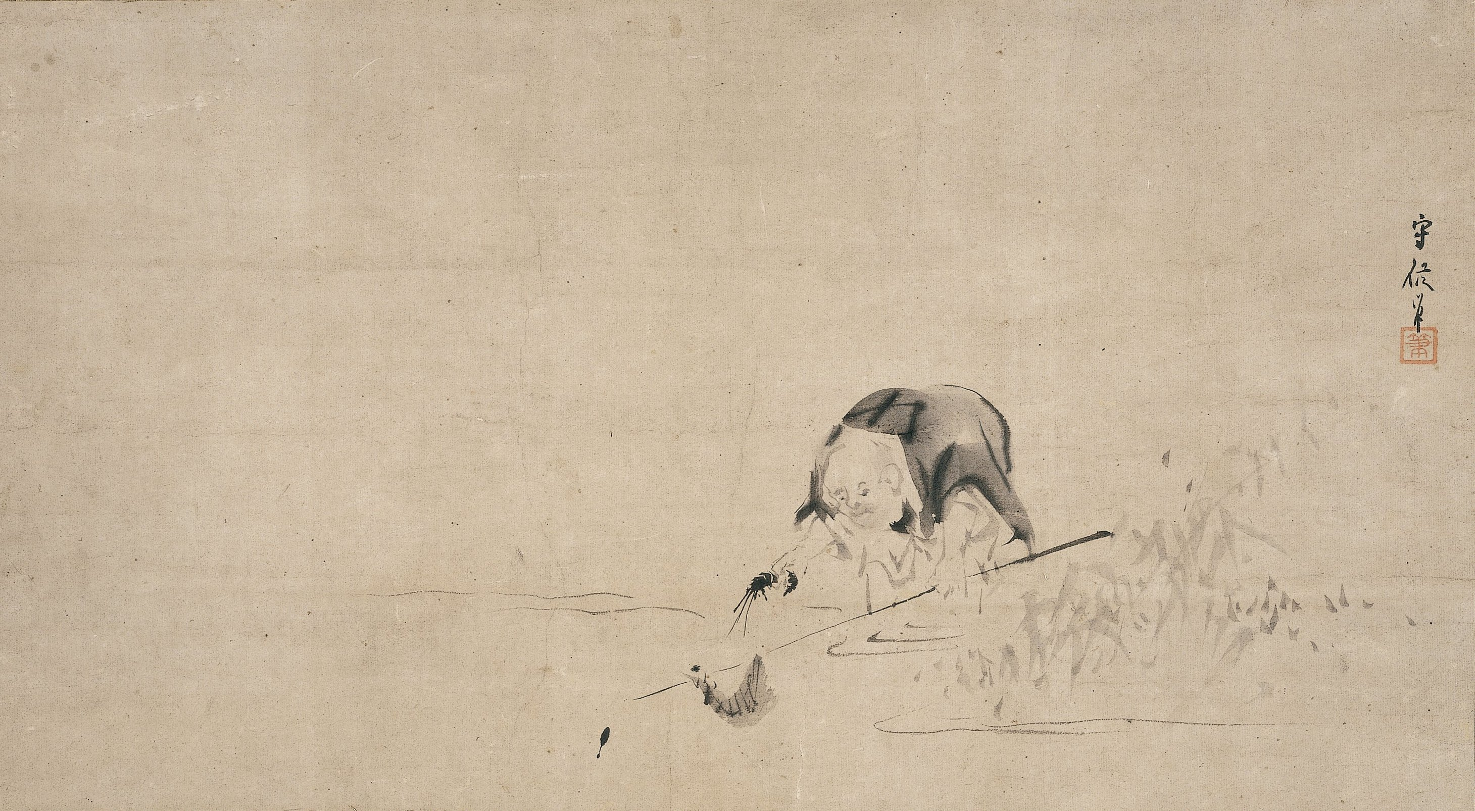 Painted by the artist Kano Tan'yu in the 17th century, this is a depiction of Xianzi, the Shrimp Eater as he catches shrimp in a river.